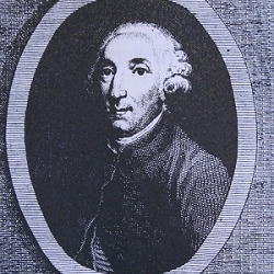 Portrait of Charles-Georges Le Roy (1723–1789), French Encyclopedist